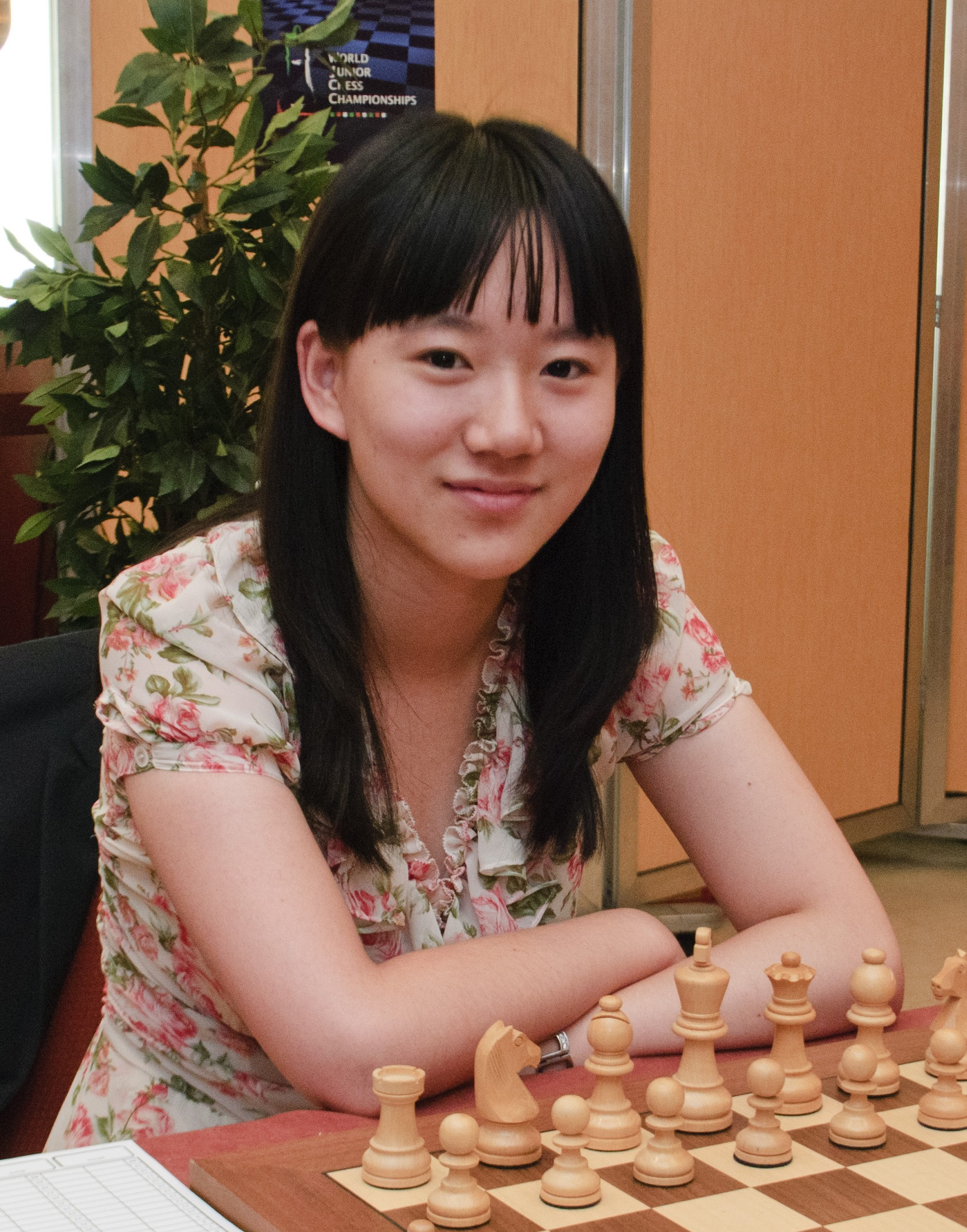 WGM Guo Qi, WChJ Athens 2012